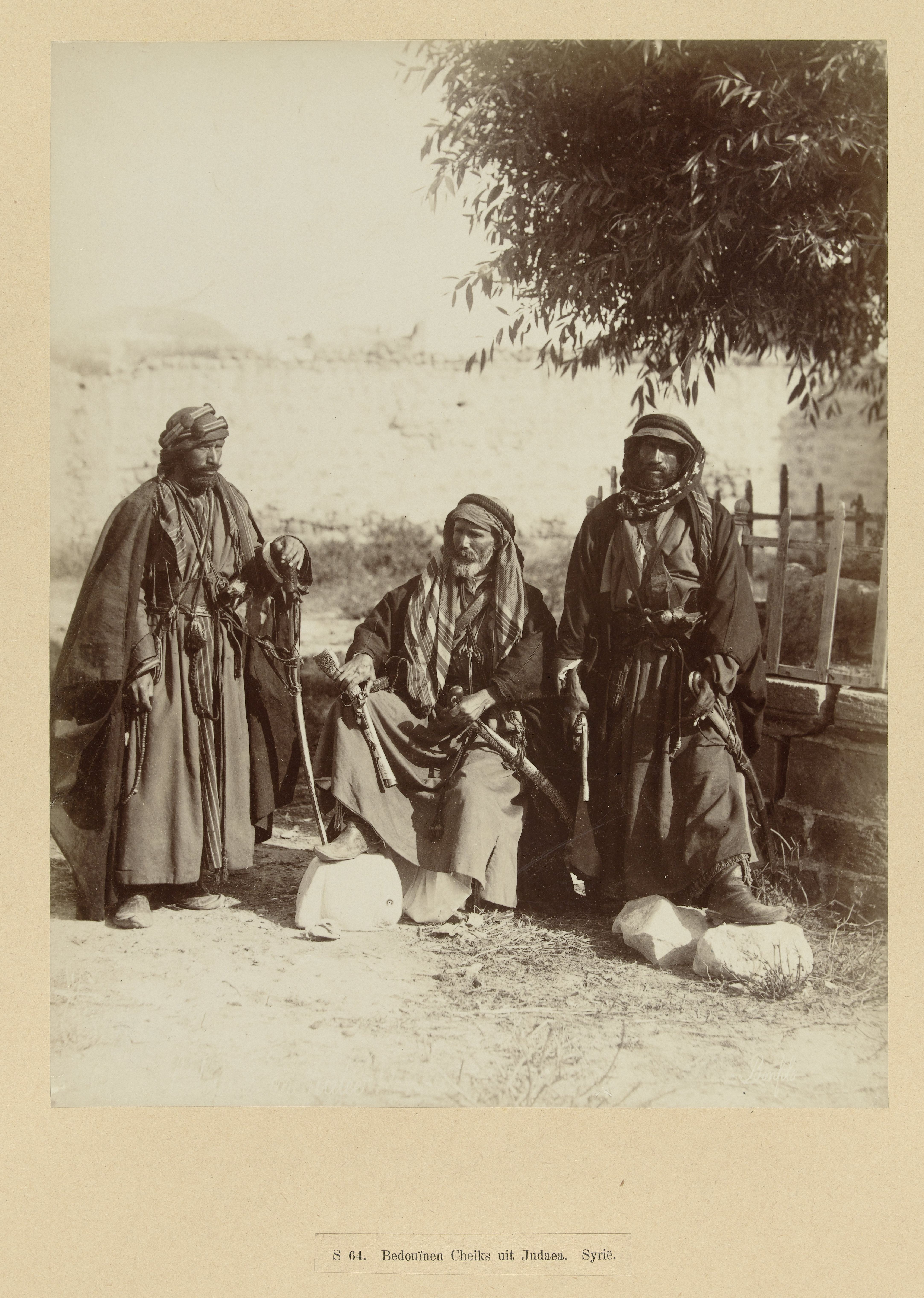 Three bedouins sheikhs. Judea, Syria (as written at bottom)